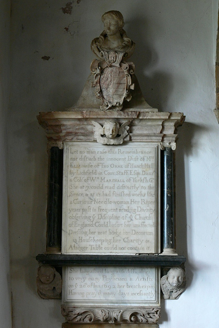 Memorial to Elizabeth Orme (died 1692), St Leonard's parish church, Aston le Walls, Northamptonshire